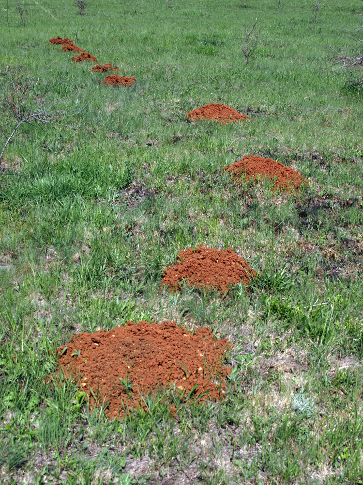 Mole Hills Къртичини